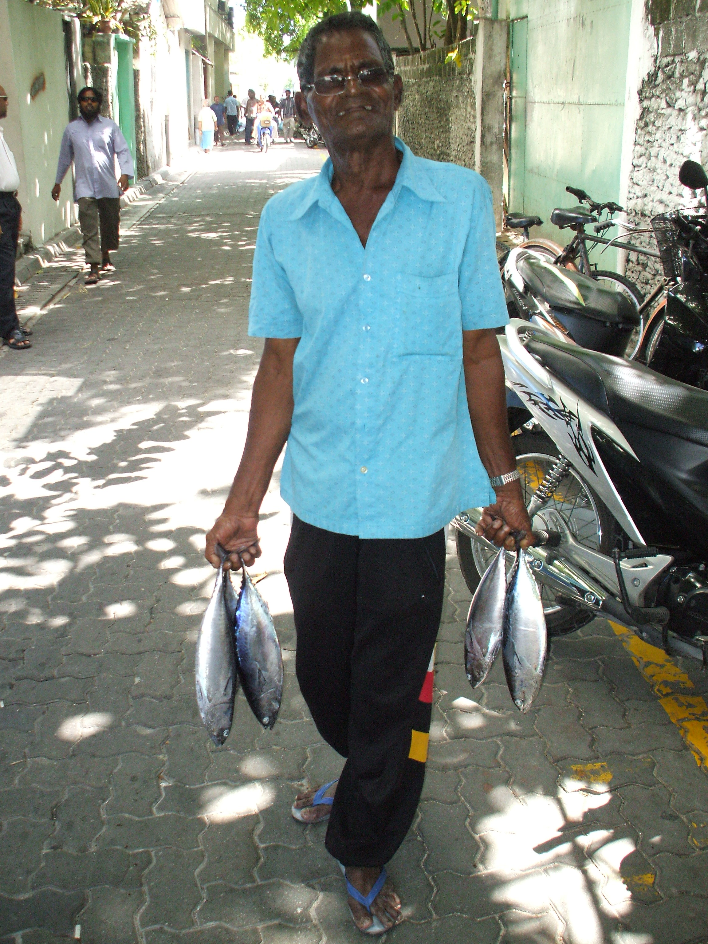 A man from Maldives with Tuna fish